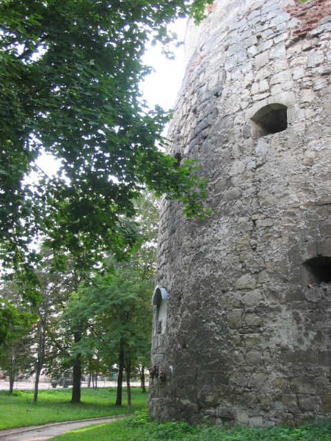 Castle in Berezhany, western Ukraine.